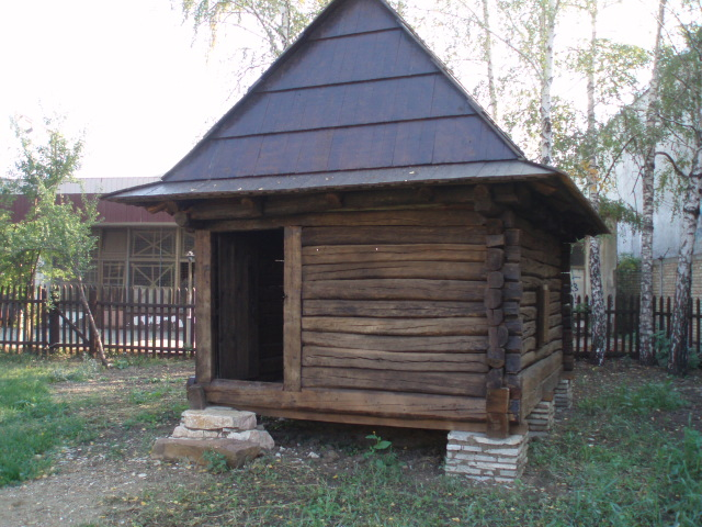 Еthno-house "Brvnara" in Bački Jarak